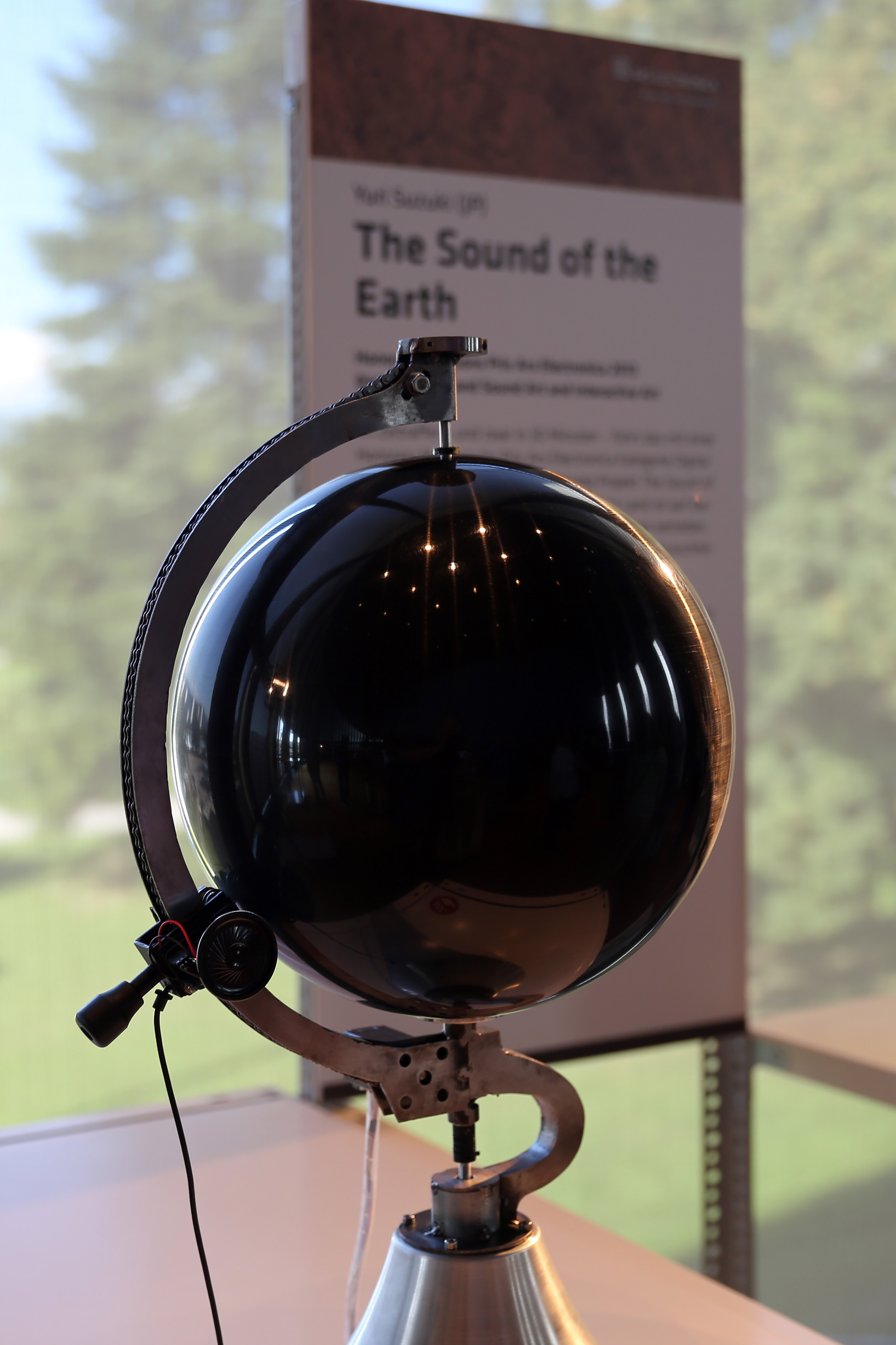 The Sound of the Earth - Ars Electronica 2013 at Brucknerhaus, Linz, Upper Austria.